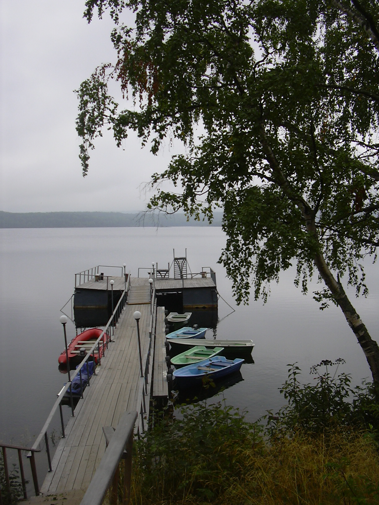 Piers for boats in Pertozero lake (Karelia)